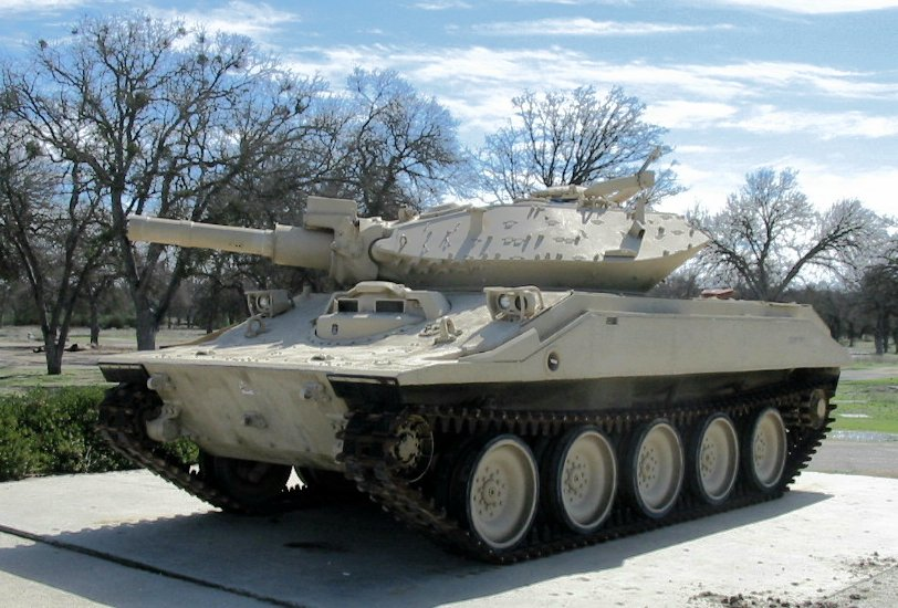 A Sheridan M551A1 is displayed inside Fort Hunter Liggett.